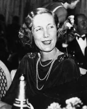 English aviation pioneer and memoirist Beryl Markham (1902-1986).